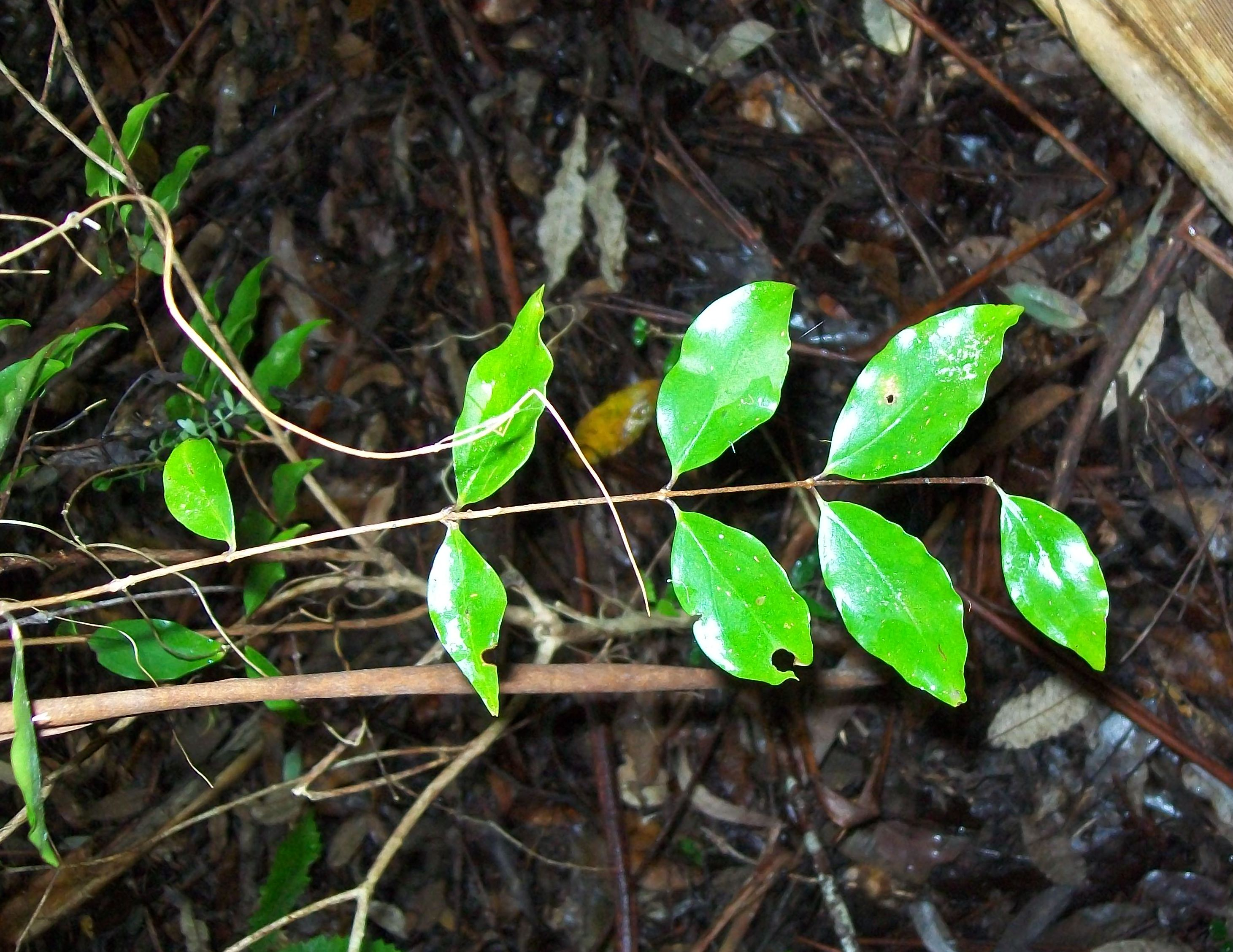 Archirhodomyrtus beckleri at Kerewong State Forest, near Kendall, NSW